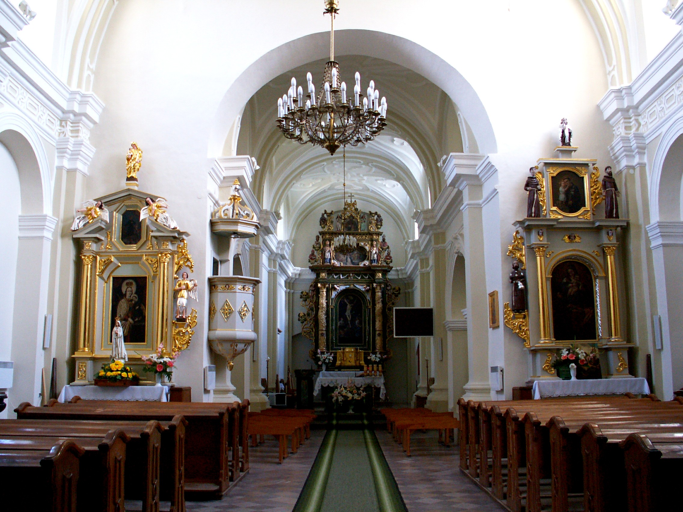 Church in Chełmce (Poland)